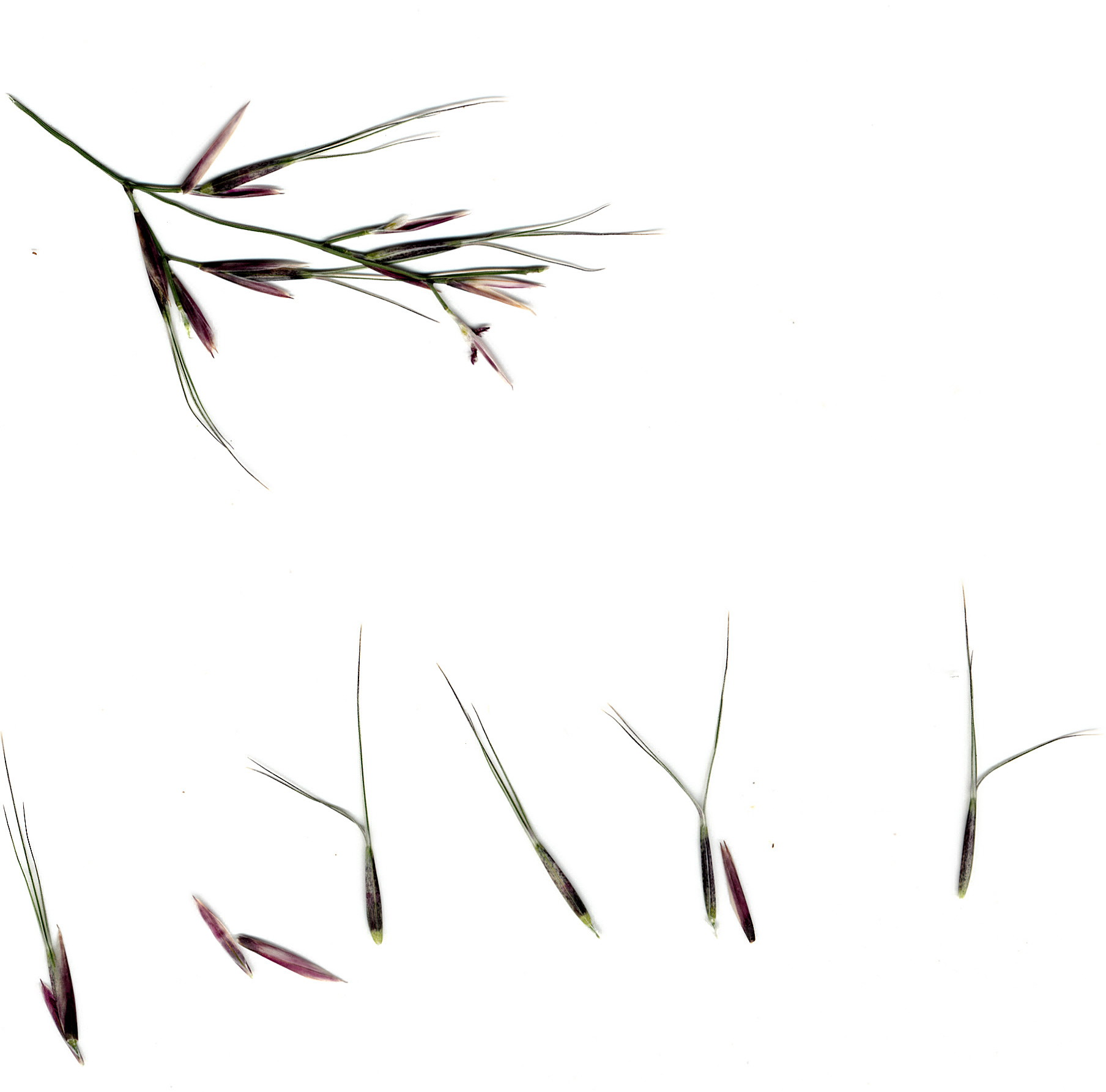 Spikelets are 1-flowered with purplish glumes. Lemma is 6-9 mm long, purple or brown with darker margins and grooved down one side; with a 3-branched awn that has lateral branches more than 2 mm shorter than the median branch.